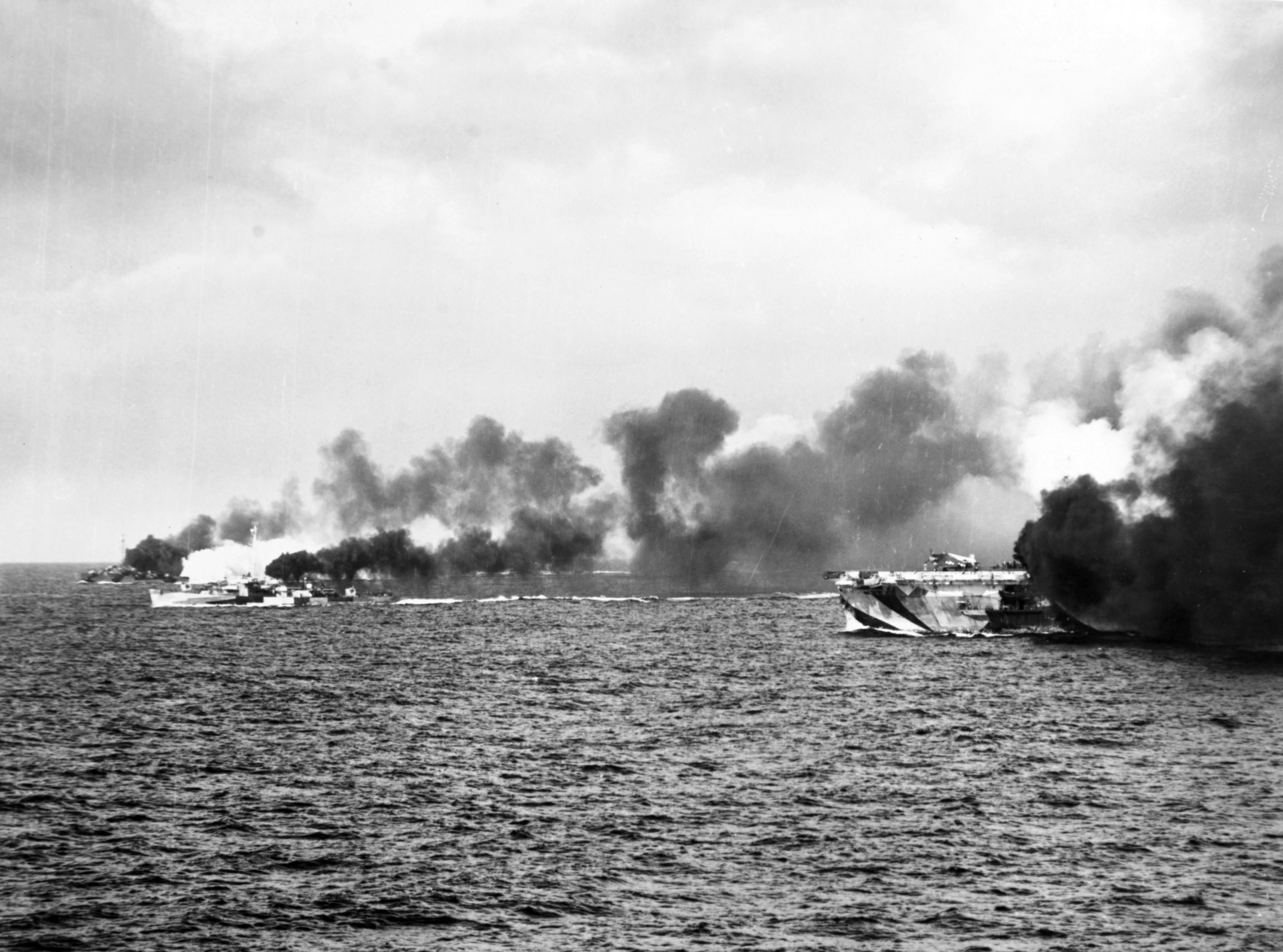 The U.S. Navy escort carrier USS Gambier Bay (CVE-73) and her escorts pictured amidst a smoke screen during the Battle off Samar, 25 October 1944. Gambier Bay is painted in Camouflage Measure 32, Design 15A. The nearer destroyer escort is painted in Camouflage Design 2C and is therefore USS Raymond (DE-341). The other destroyer escort is painted in Camouflage Design 22D, which was worn by USS Dennis (DE-405) and USS Samuel B. Roberts (DE-413) off Samar.